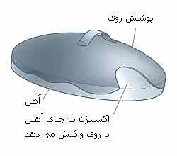 hot dip glvanizing glvanize.ir